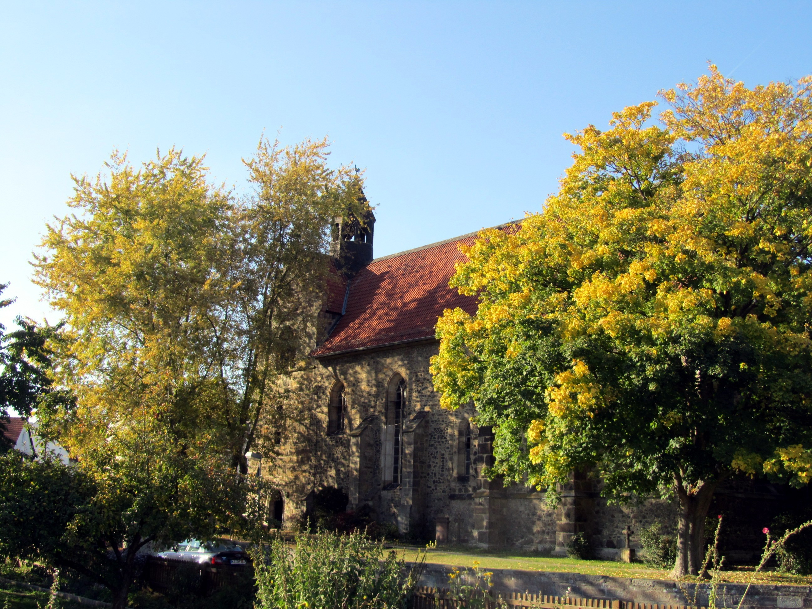 Kassel-Nordshausen: church in Autumn